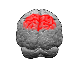 Brodmann areas 7 BA5 is in the posterior parietal lobe. This is a rear view, looking down on back of the brain The brain's surface is extracted from structural MRI data (Wellcome Dept. Imaging Neuroscience, UCL, UK). The Brodmann Area data is based on information from the online Talairach demon (an electronic version of Talairach and Tournoux, 1988). These images were created using Blender and Matlab. reference:Talairach, J., and Tournoux, P. Co-Planar Stereotactic Atlas of the Human Brain., New York: Thieme, 1988.